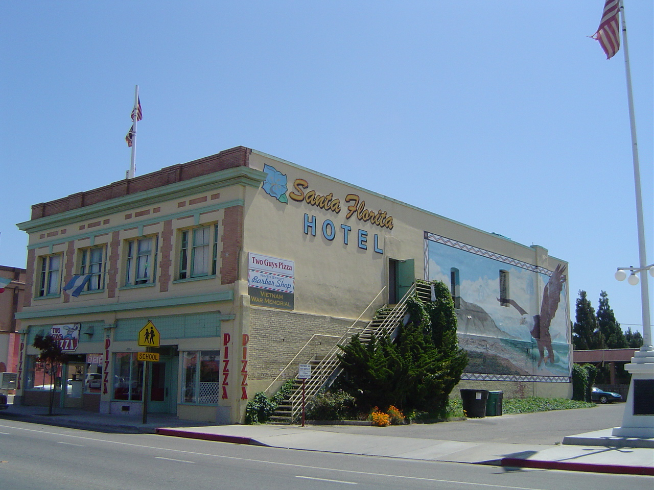 Lodgings in Guadalupe are clustered along Hwy 1], in northern Santa Barbara County, California. July 31, 2005